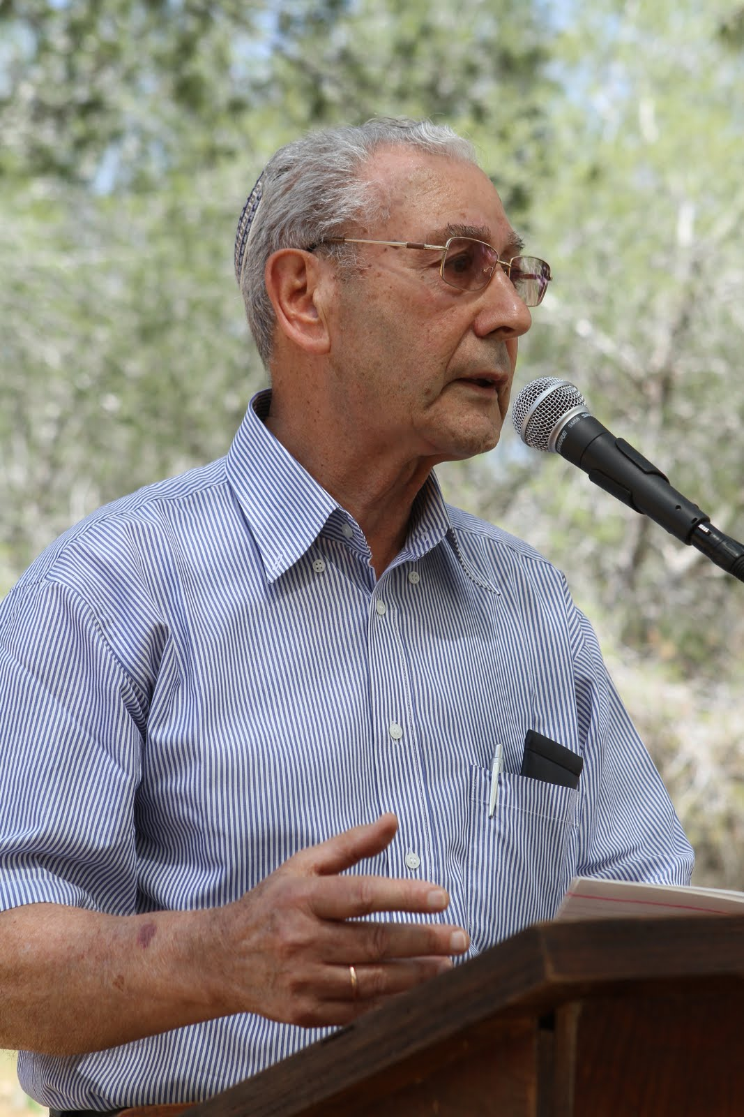 photo of Asher Ohayon